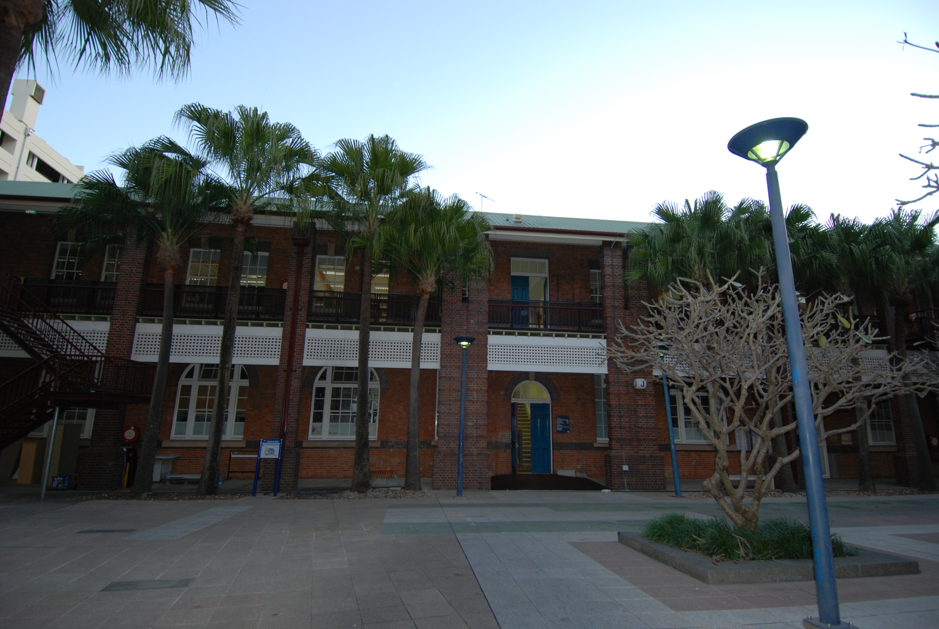 PHOTO OF J BLOCK